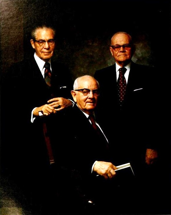 Dallin H. Oaks, while President of Brigham Young University, a member of the Quorum of the Twelve Apostles of The Church of Jesus Christ of Latter-day Saints, former professor of law at the University of Chicago Law School, and a former justice of the Utah Supreme Court.